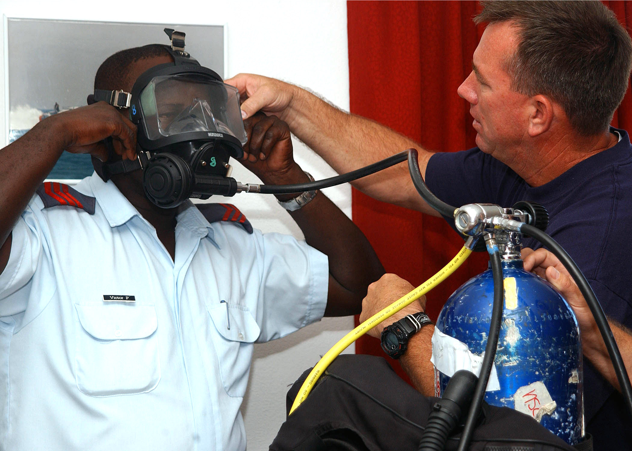 Mahe Island, Seychelles (Nov. 10, 2006) - Senior Chief Navy Master Diver Gene McDaniel, assigned to Mobile Diving and Salvage Unit One (MDSU-1) Detachment 5, based in Pearl Harbor, Hawaii, explains the Mk 20 full face mask to Seychelles Coast Guard diver Sgt. Paul Victor, during exercise Island Response. The annual exercise is geared toward increasing the interoperability of U.S. Navy divers and divers from the Seychelles Coast Guard. U.S. Navy photo by Mass Communication Specialist 1st Class Kathryn Whittenberger (RELEASED)